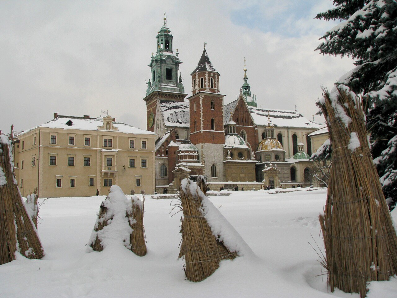 Wawel Cathedral in Krakow.